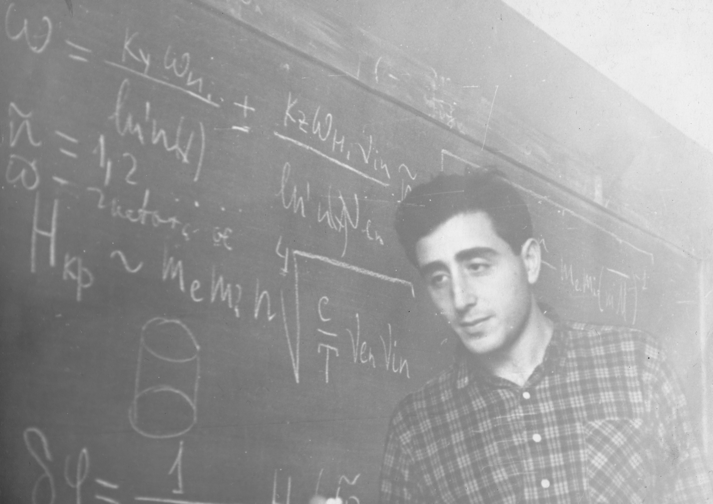 Old photograph